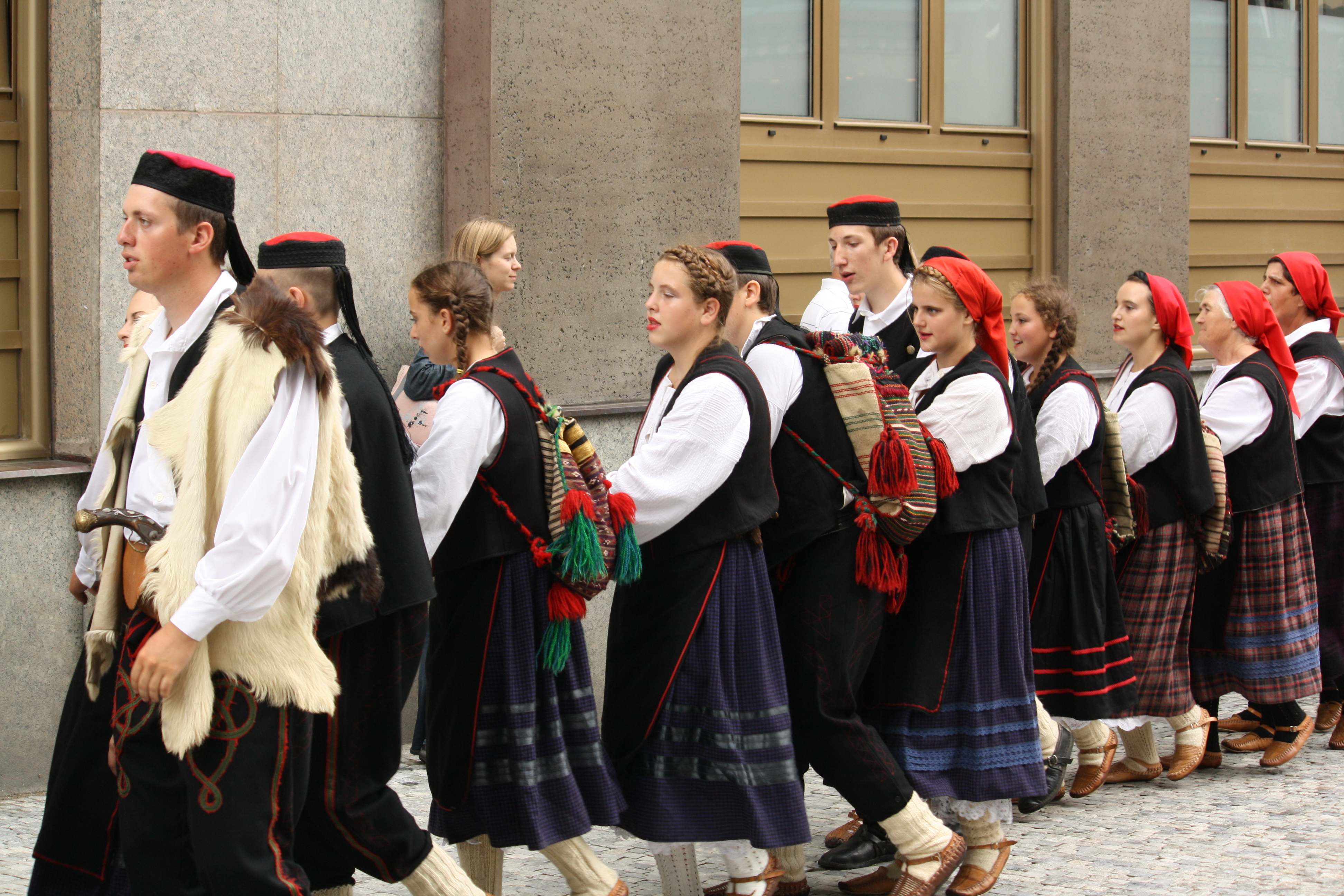 7th international folklore festival "Pražský jarmark" - serbian folk dancers on Celetná street in Prague are waiting for their performance to begin This photograph was taken with a DSLR from WMCZ's Camera grant. Personality rights warningAlthough this work is freely licensed or in the public domain, the person(s) shown may have rights that legally restrict certain re-uses unless those depicted consent to such uses. In these cases, a model release or other evidence of consent could protect you from infringement claims.